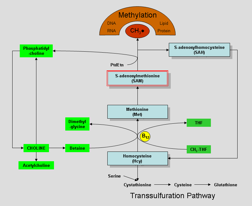 Mihai Niculescu